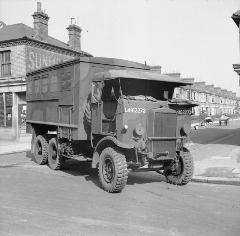 The British Army in the United Kingdom 1939-45 Leyland Retriever 3-ton 6x4 wireless lorry, 18 March 1941.